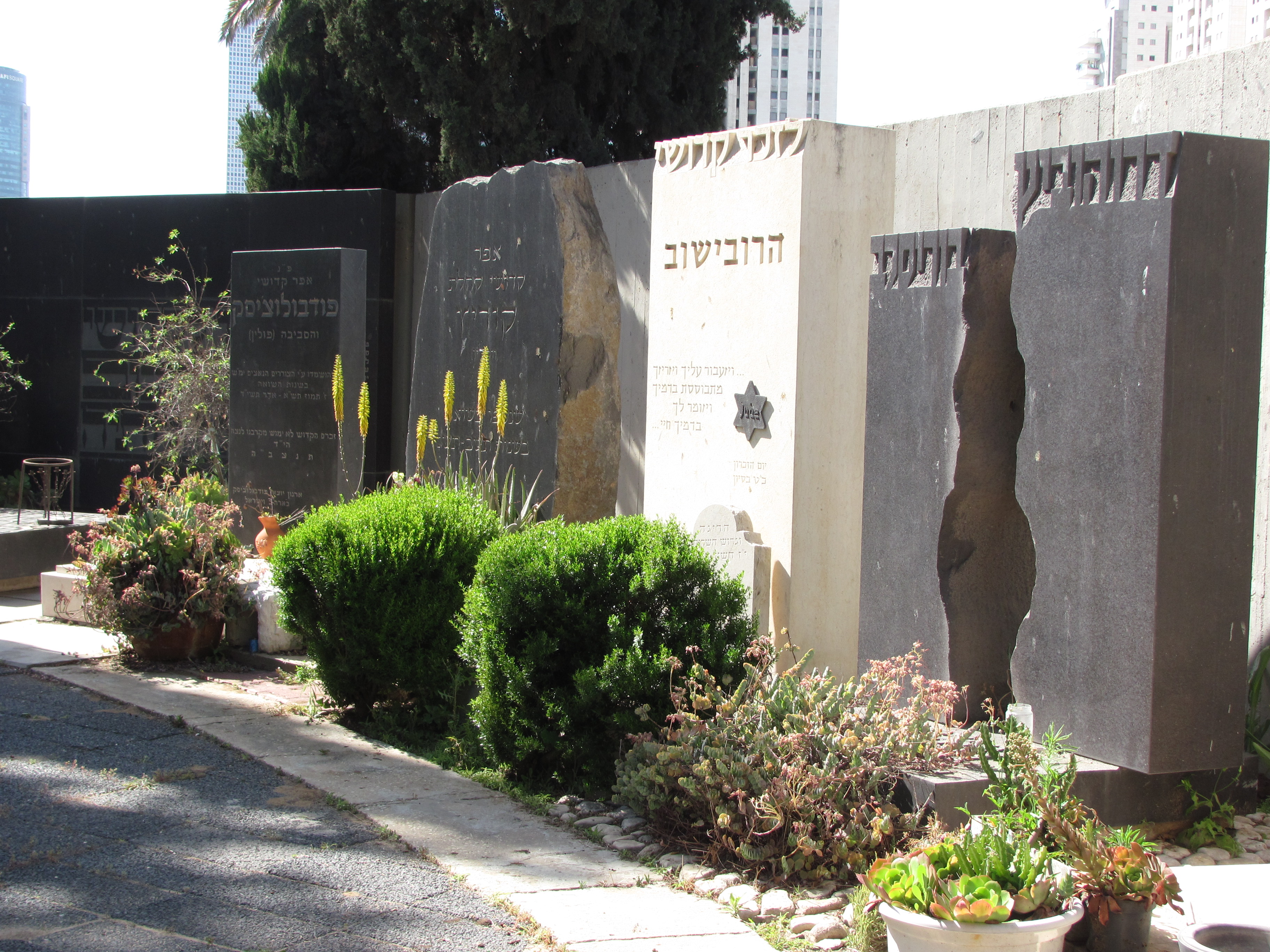 Holocaust memorials at Nahalat Yitzhak Cemetery, Givatayim. From right to left, memorials to the destroyed Jewish communities of: Drohobych and Boryslav, Harovishov, Koritz, Pidvolochysk.